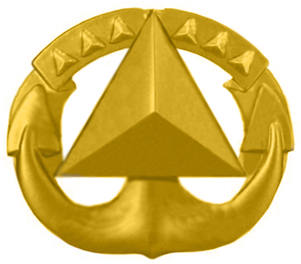 NOAA award.